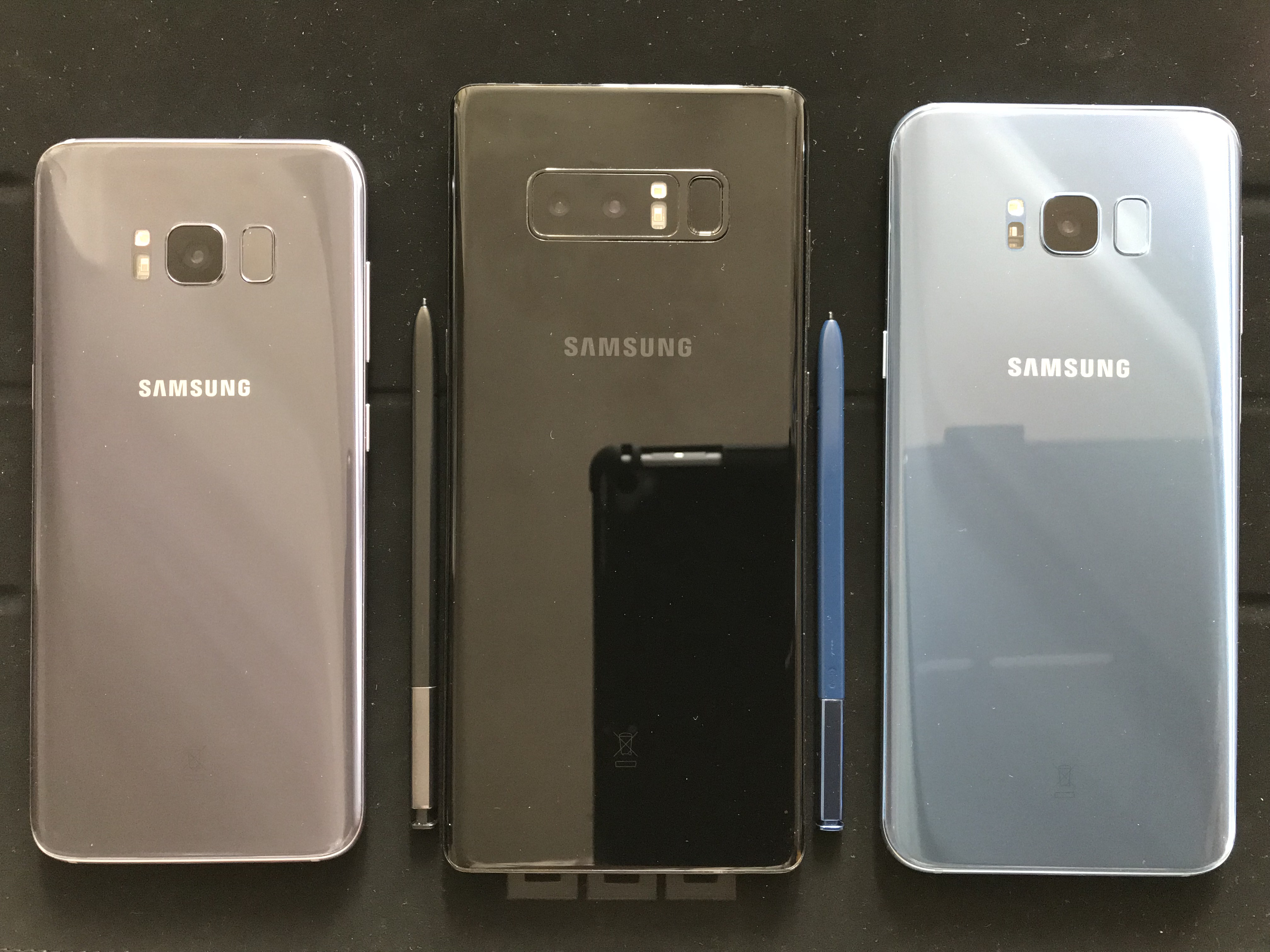 Samsung Galaxy series smartphones